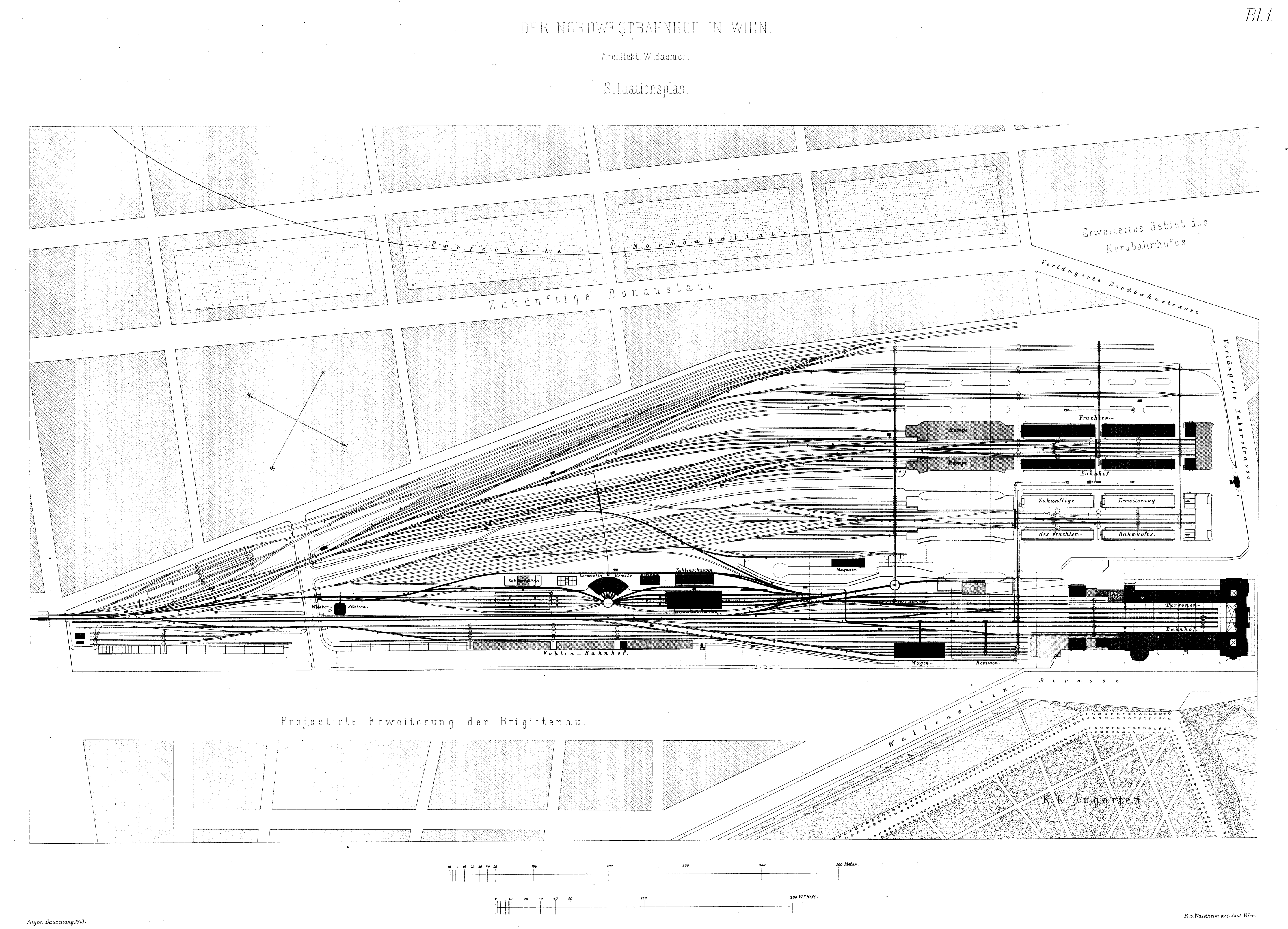 High resolution plan of the Nordwestbahnhof in Vienna.